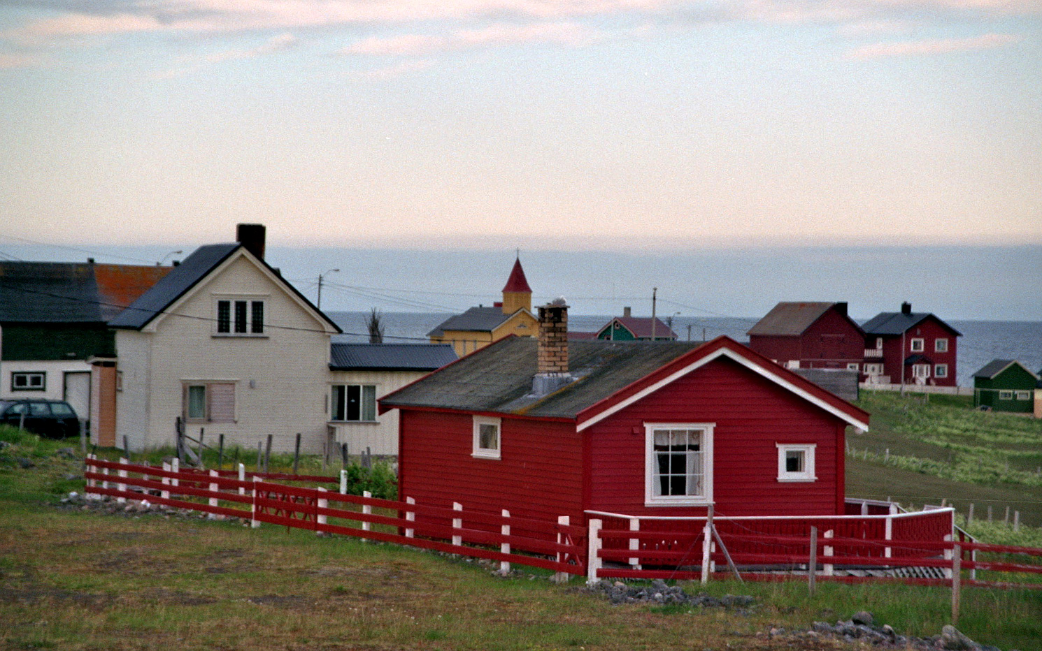 Skallelv as seen from highway E75 on Varangerhalvøya on the northern shore of the Varangerfjord between Vardø and Vadsø in Finnmark in northern Norway.